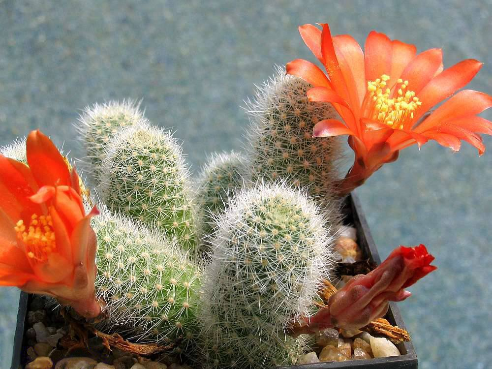 Rebutia fabrisii Rausch var. fabrisii - cultivated plant from own collection.